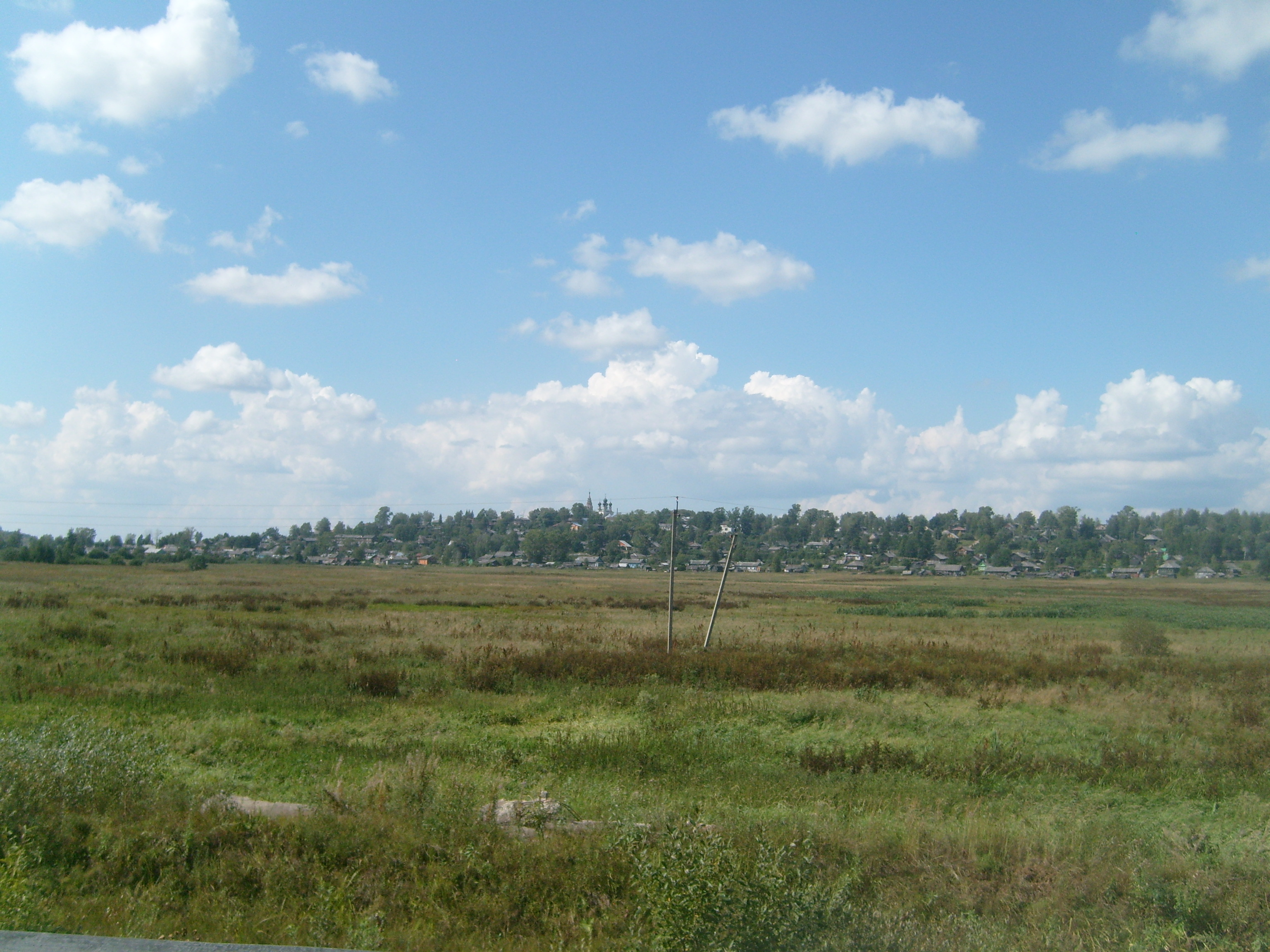 Панорама села Сусанино.